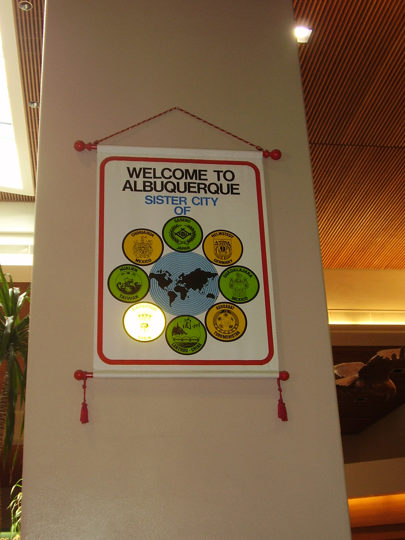 Sister cities of Albuquerque, New Mexico at Albuquerque Airport